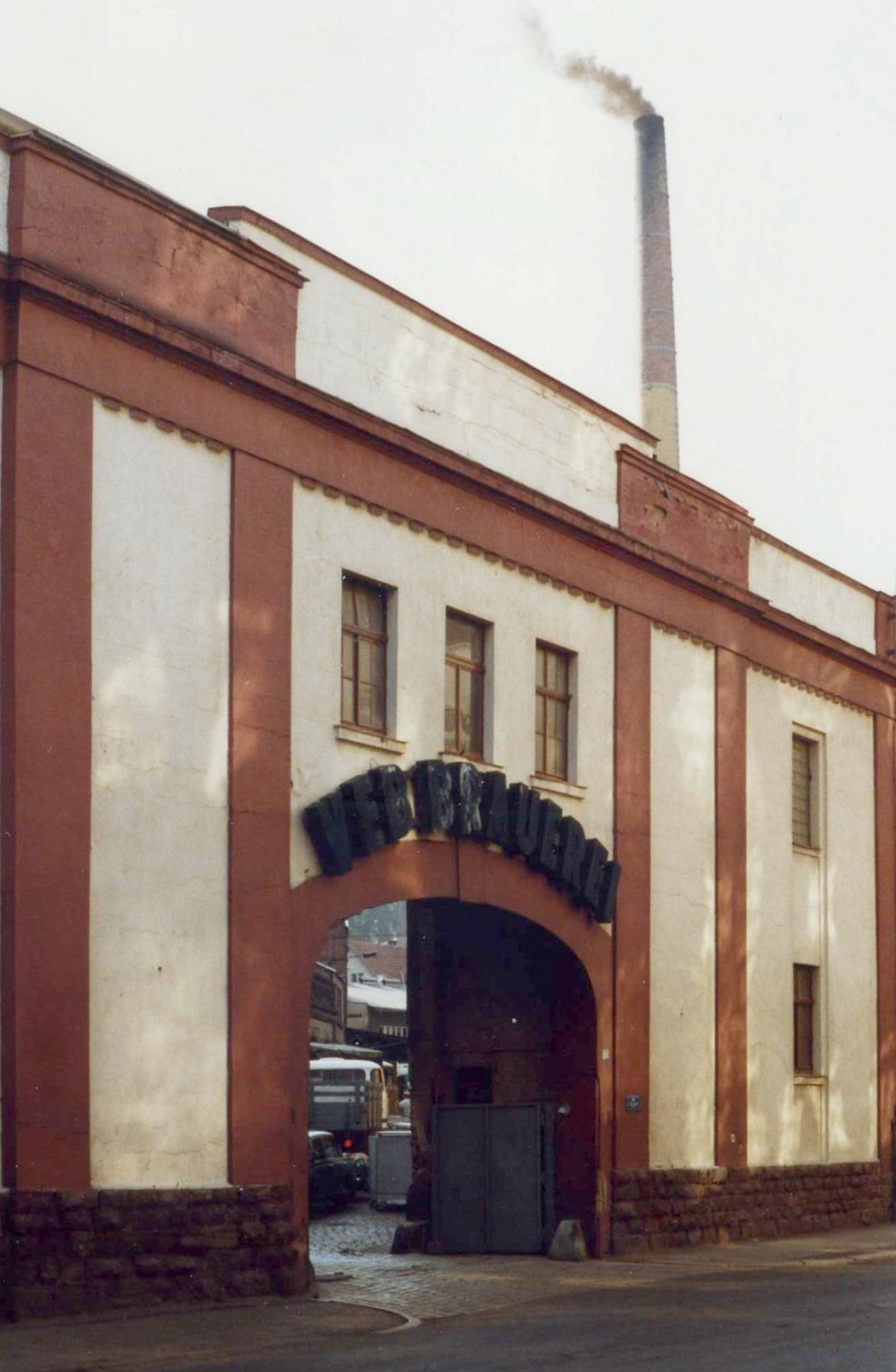 Wartburgallee 25a, Eisenach. The brewery is still in existence, founded in 1828.